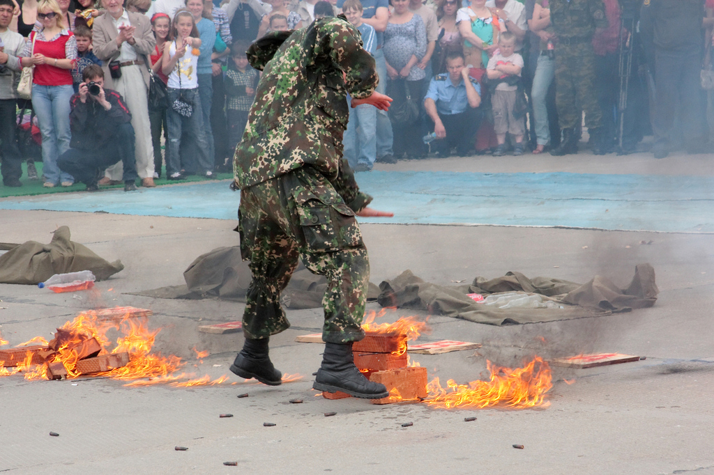 Russian Airborne Troops 45th Guards Separate Reconnaissance Regiment show